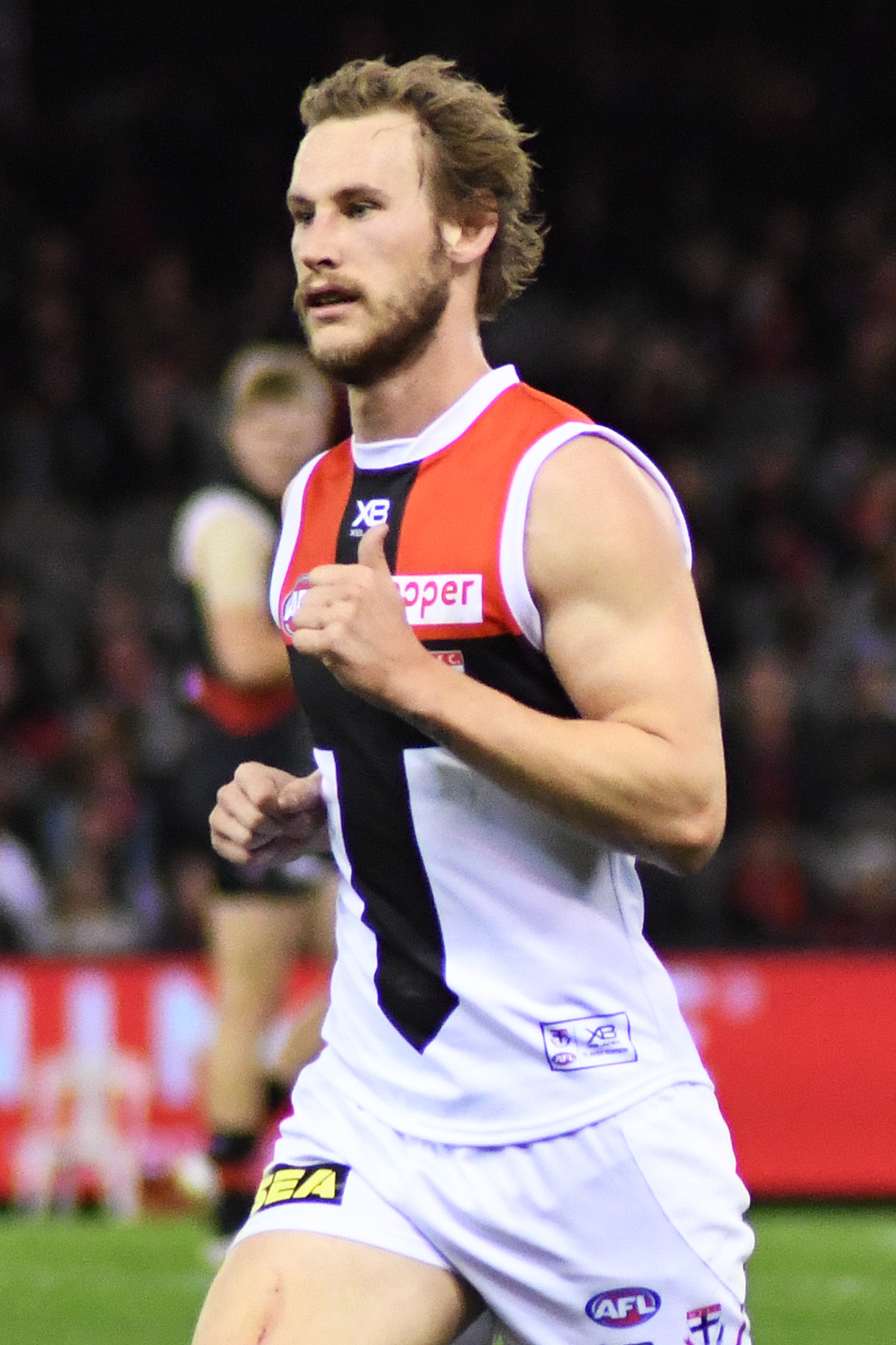 Jimmy Webster of St Kilda during the 2018 AFL round 21 match between Essendon and St Kilda at Etihad Stadium on Friday, 10 August 2018 in Melbourne, Victoria.